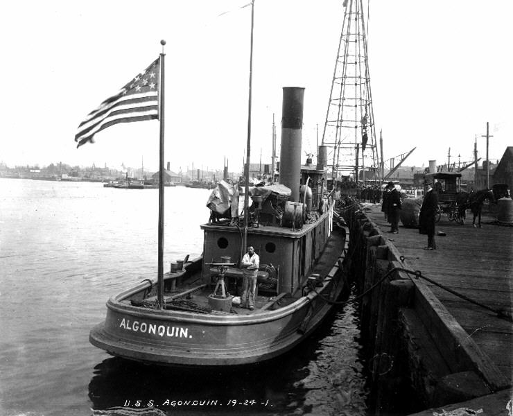 At the New York Navy Yard, Brooklyn, New York, circa April 1898. Note 6mm Colt Machinegun and 13-star boat flag aft, and horse cart on pier. This tug was renamed Accomac on 15 June 1898, Nottoway in 1920, and YTL-18 during World War II. Photograph from the Bureau of Ships Collection in the U.S. National Archives.